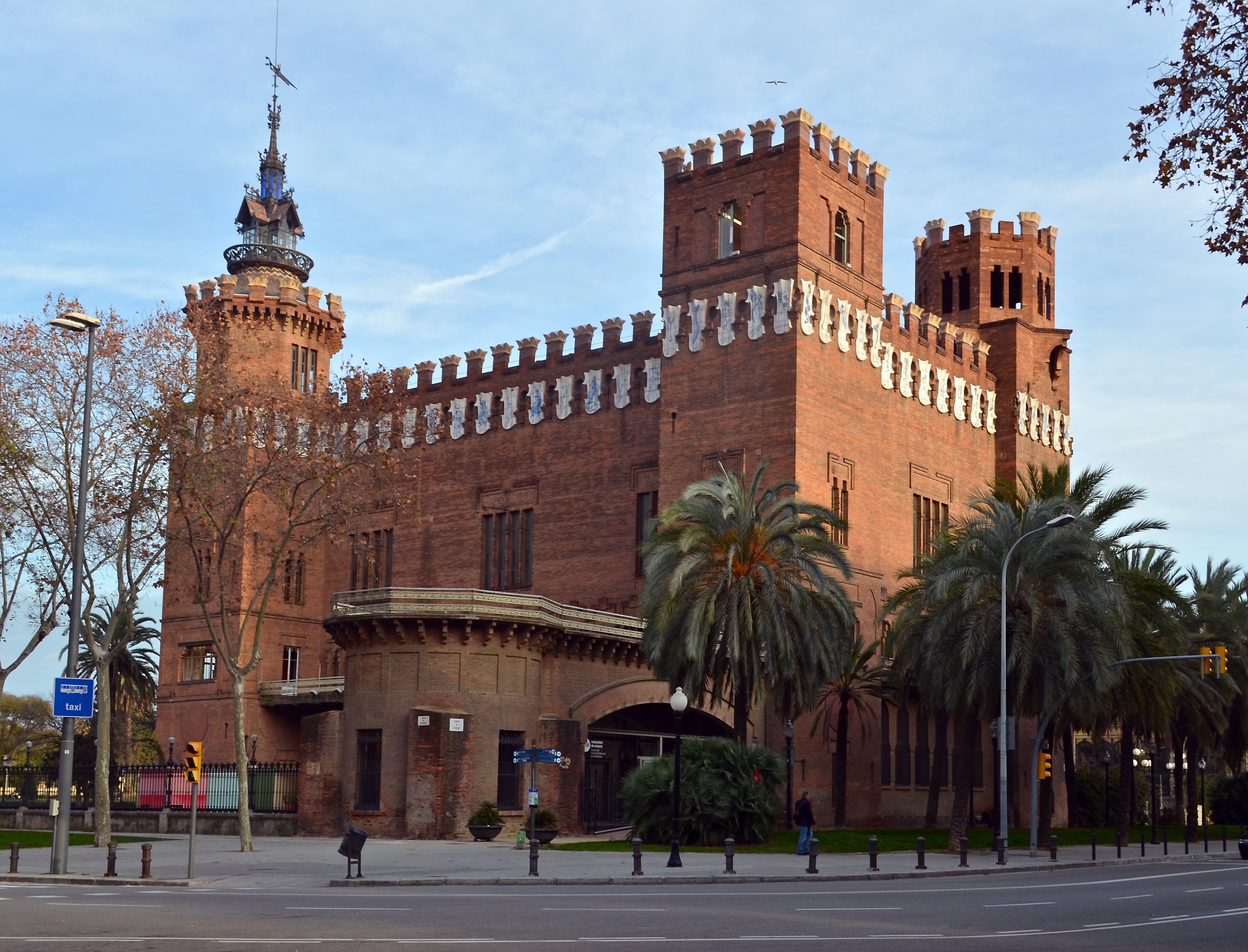 Castell dels Tres Dragons - Barcelona